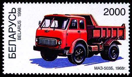 Stamp of Belarus